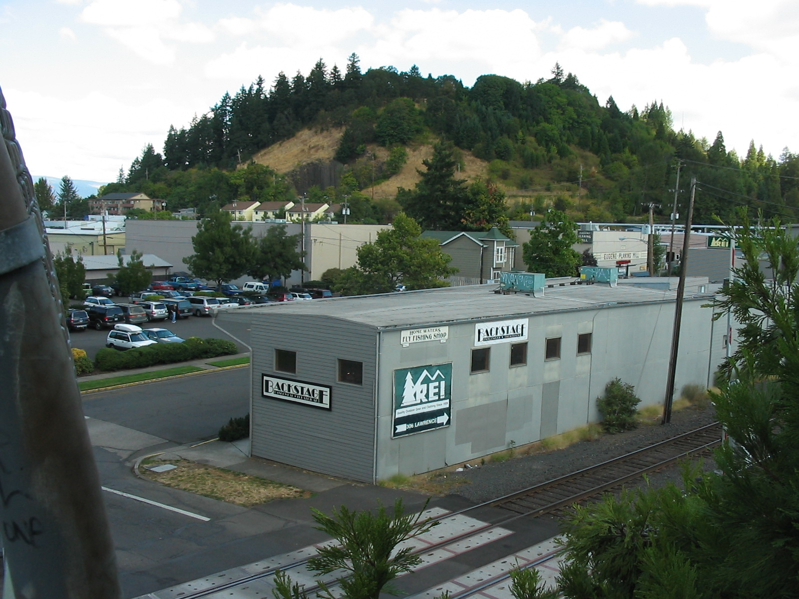 The west side of Skinner Butte